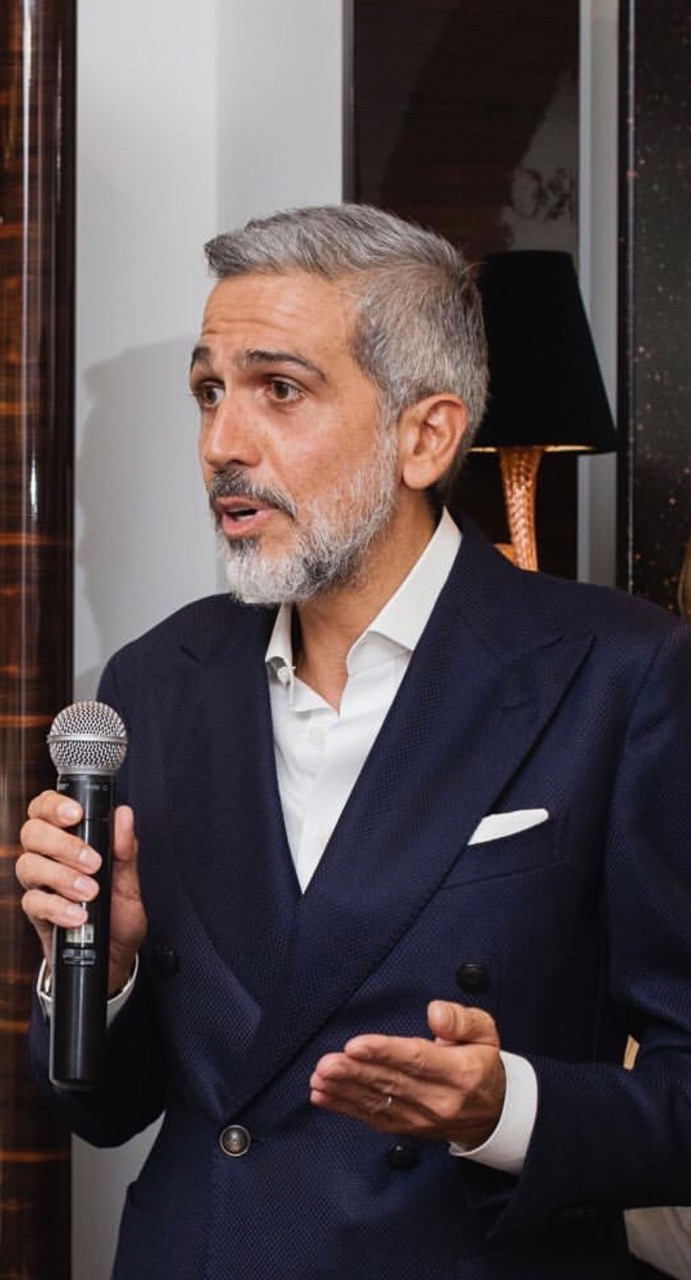 Candid photograph of Tabbah CEO and jewelry designer Nagib Tabbah giving a public lecture at an exhibition of Maison Tabbah jewels.